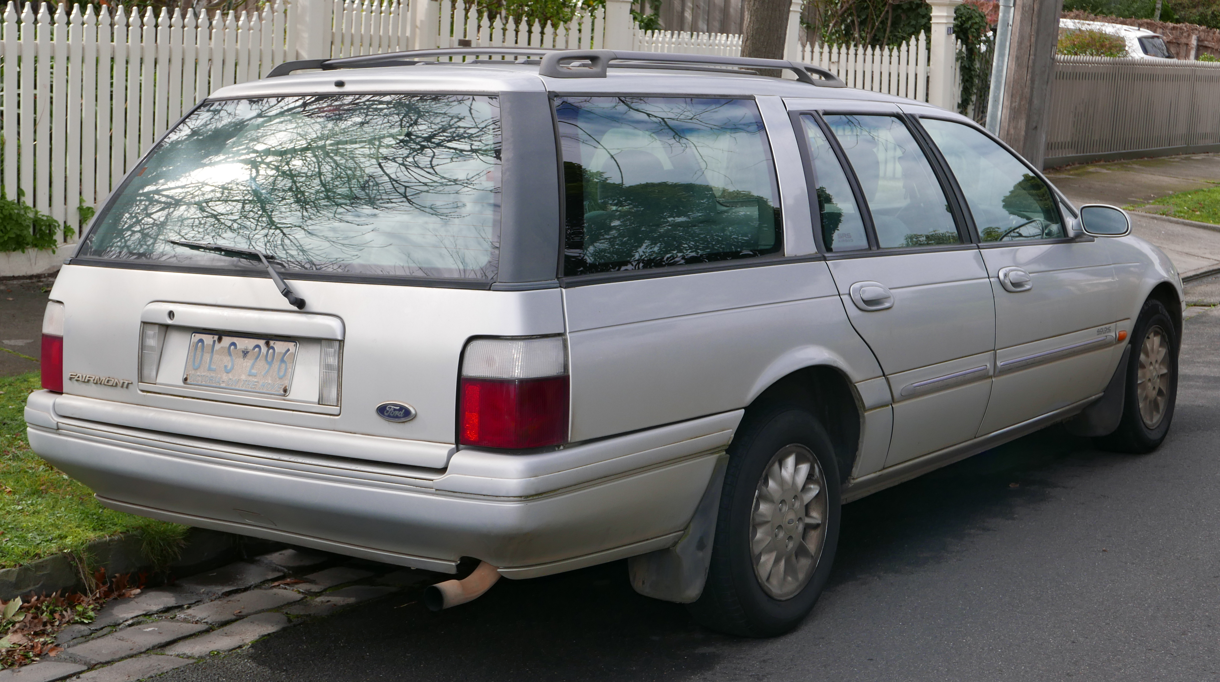 1997 Ford Fairmont (EL) station wagon. Photographed in Hawthorn, Victoria, Australia. Vehicle registration enquiry results Jurisdiction Victoria Registration OLS296 Chassis code 6FPAAAJGWAVG71002 Engine code JGWAVG71002 Compliance date 1997-08 Year of manufacture 1997